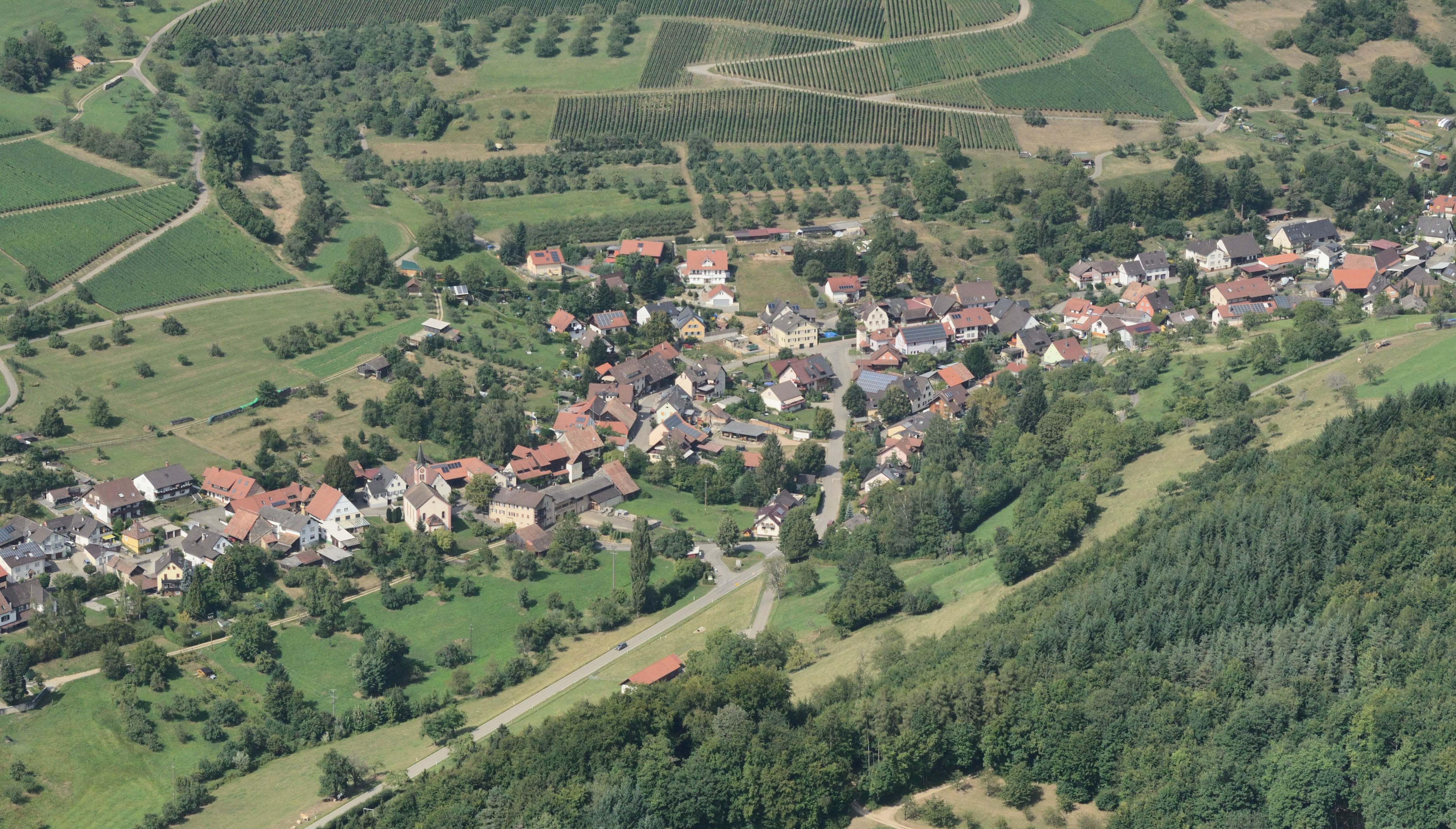 aerial view of Feuerbach